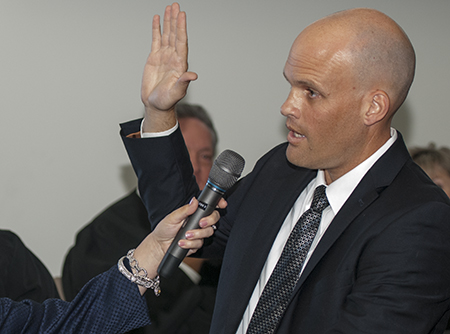 John B. Owens taking oath of office; Being sworn in as Circuit Judge for the Ninth Circuit